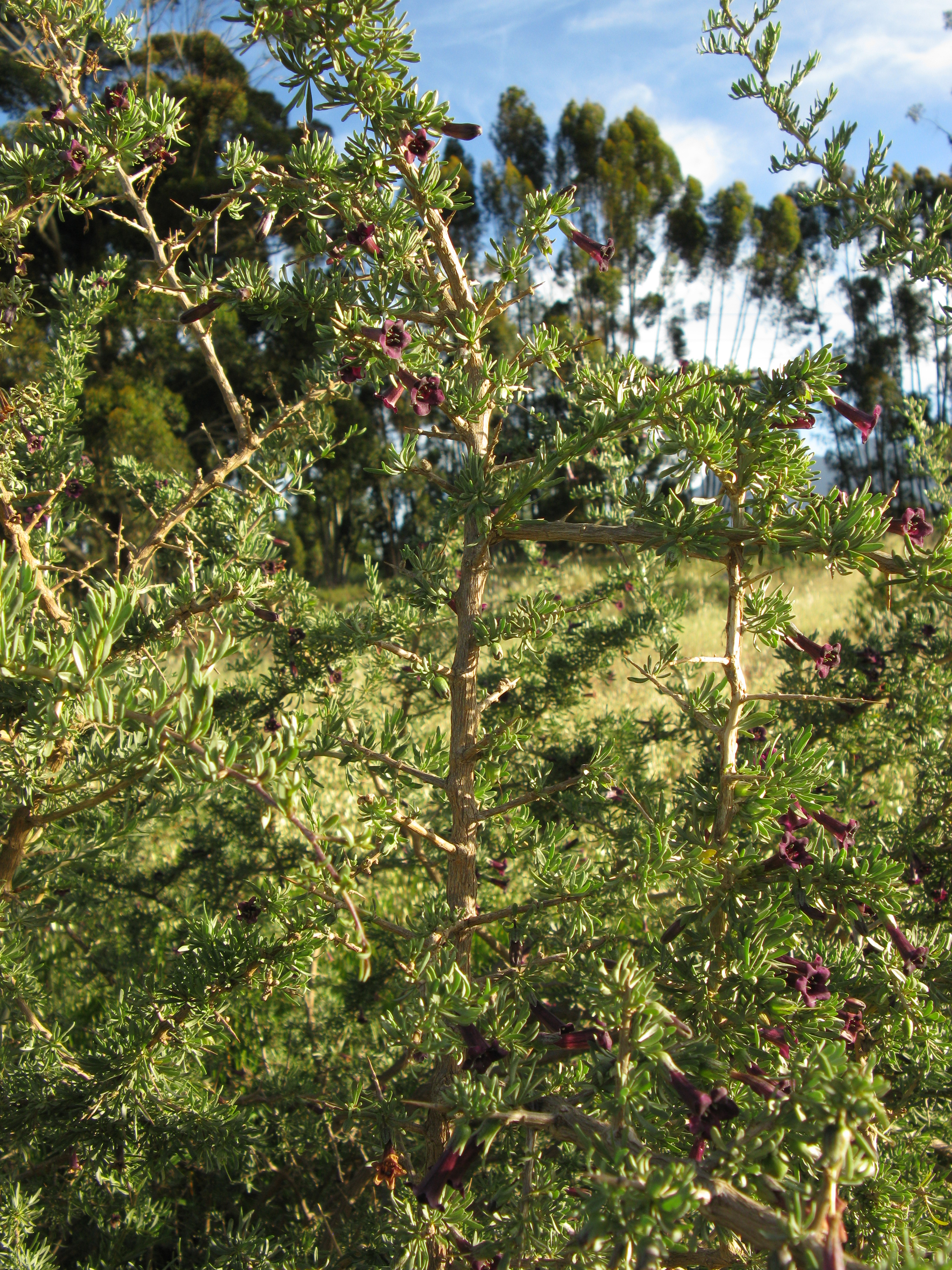 Kraal honey thorn, branch with thorns typical of the genus, photographed in veld near Paarl, Western Cape, South Africa